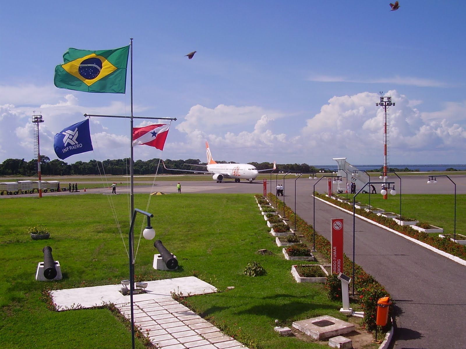 Gate BRAVO Sbsn